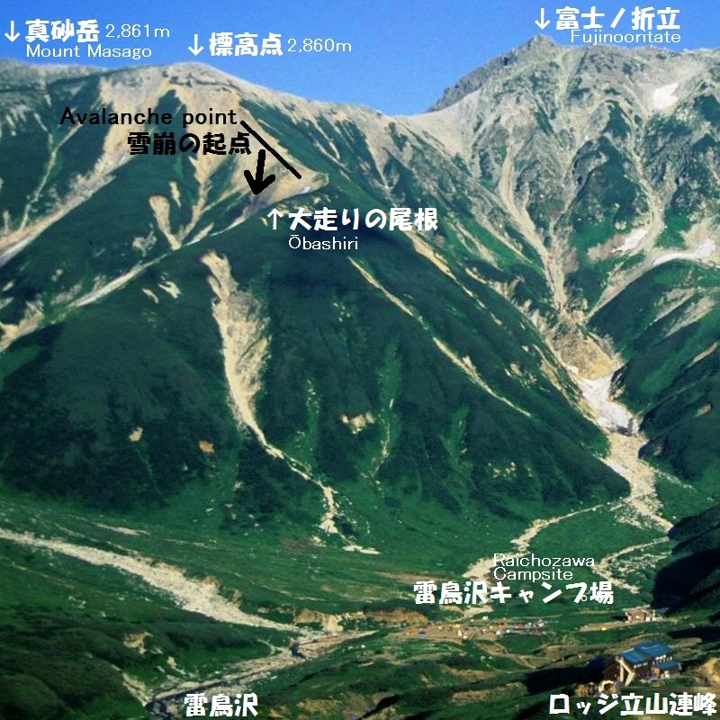 Mount Masago and Fuji-no-oritate of Mount Tate seen from west in Hida Mountains, Japan.